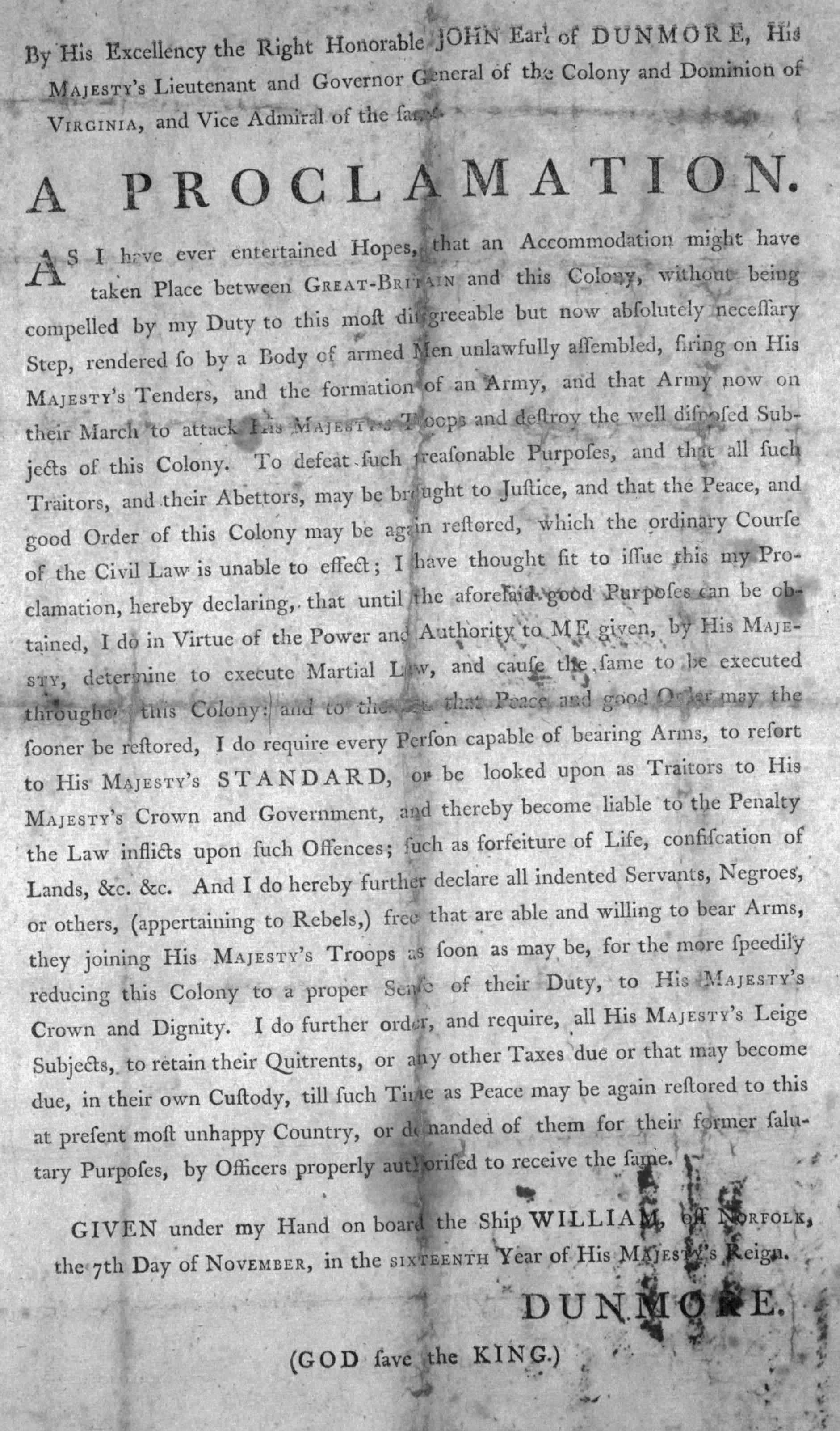 A copy of Dunmore's Proclamation, issued November 7, 1775. Image has been color adjusted (LOC version is inverted) and cropped.